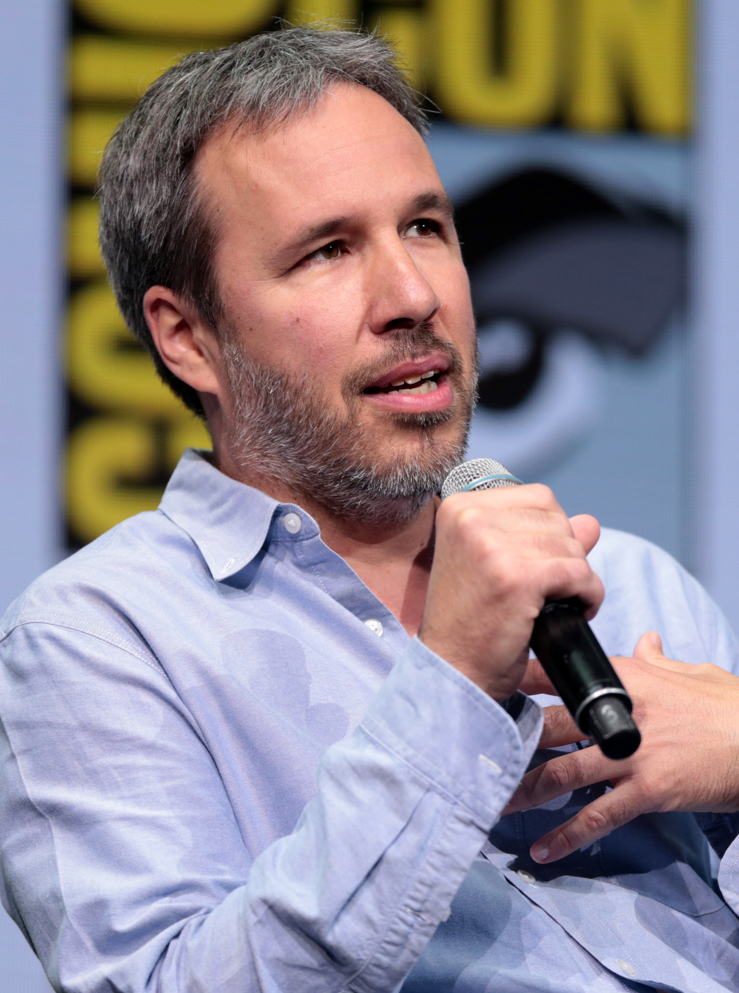 Denis Villeneuve speaking at the 2017 San Diego Comic-Con International in San Diego, California.